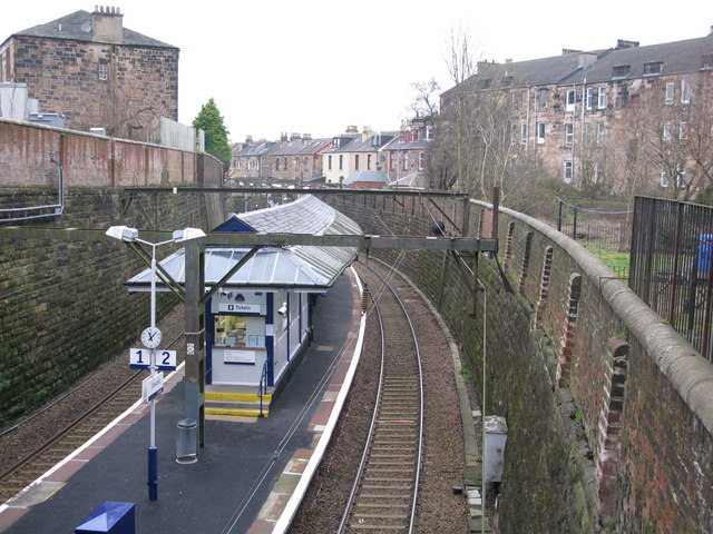 Crosshill railway station Original description: Crosshill Railway Station Crosshill is the station between Queen's Park and Mount Florida on the Cathcart Circle Line out of Glasgow Central. It is also on the route leading towards the Newton and Neilston branch lines.